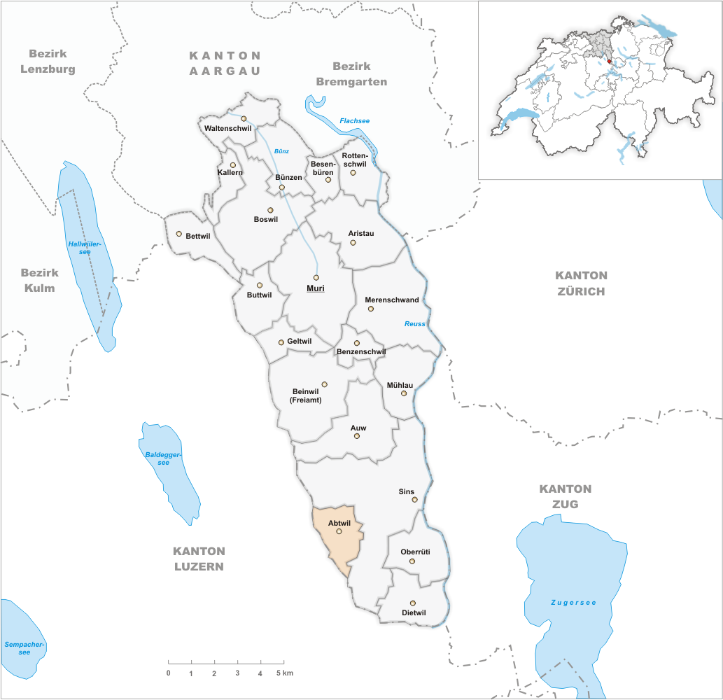 Municipality Abtwil